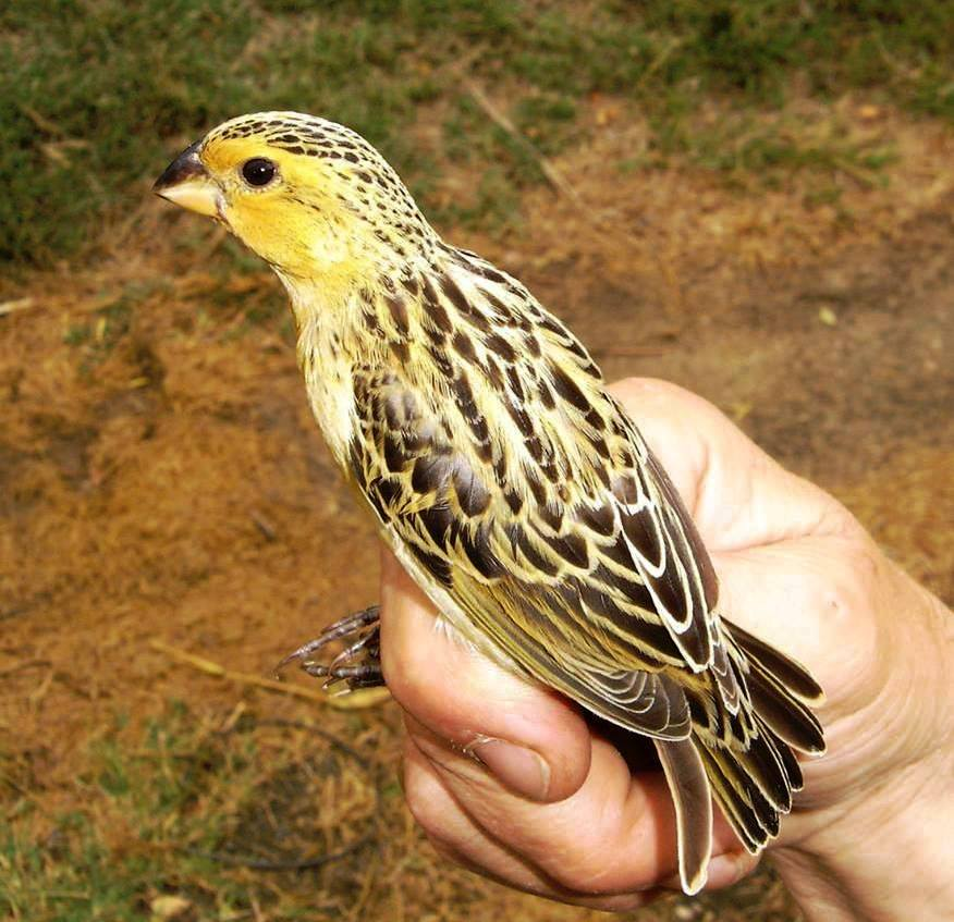 Cuckoo Finch trapped at Polokwane Bird Sanctuary, Limpopo, South Africa